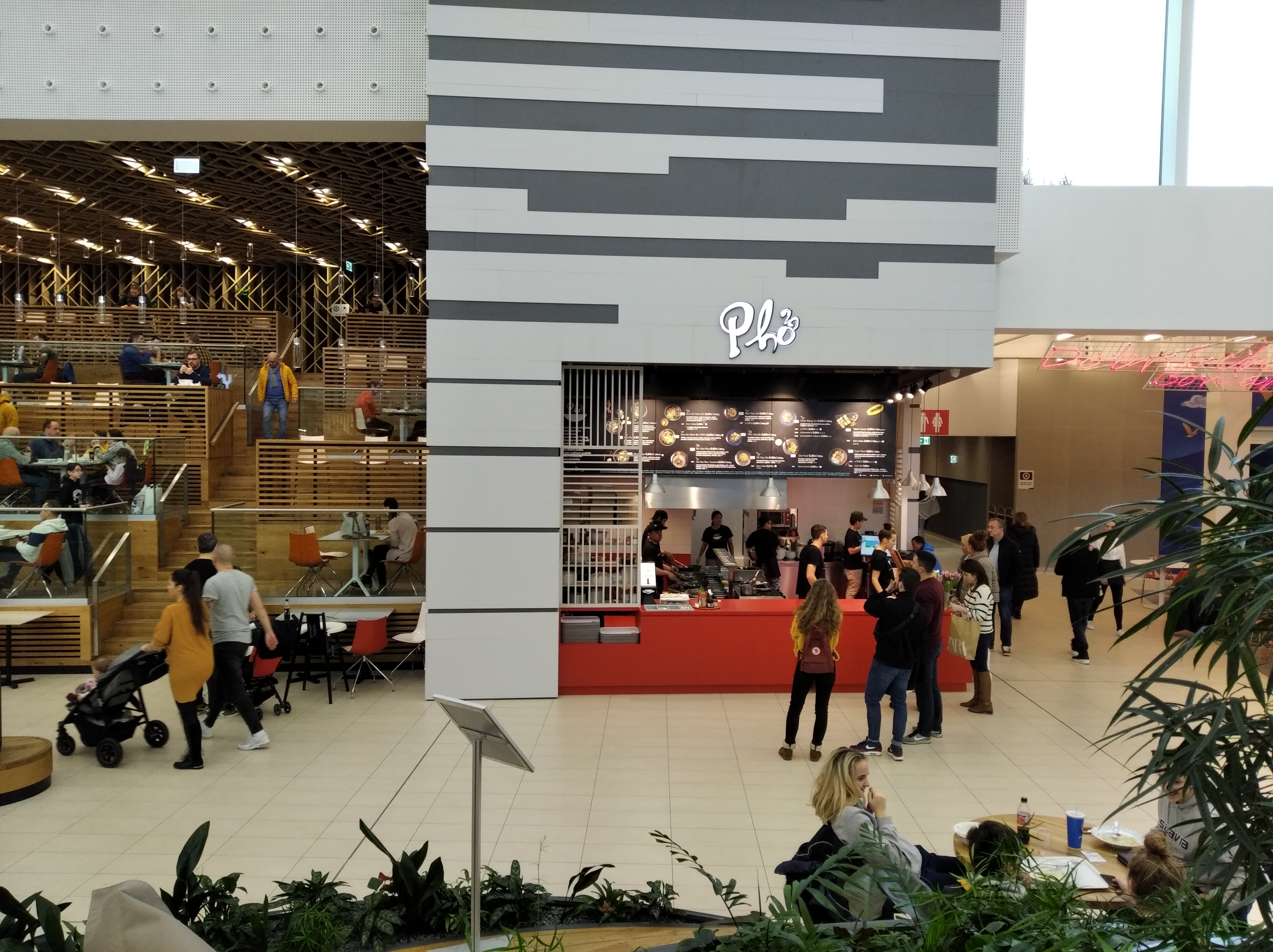 Phở in Bratislava, Slovakia